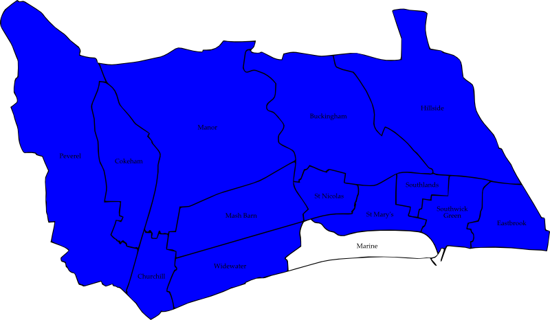 A map of the results of the 2008 Adur Council election. Colour legend by wards won: Conservative party Residents